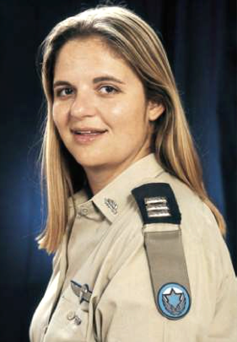 Depicted person: Alice Miller